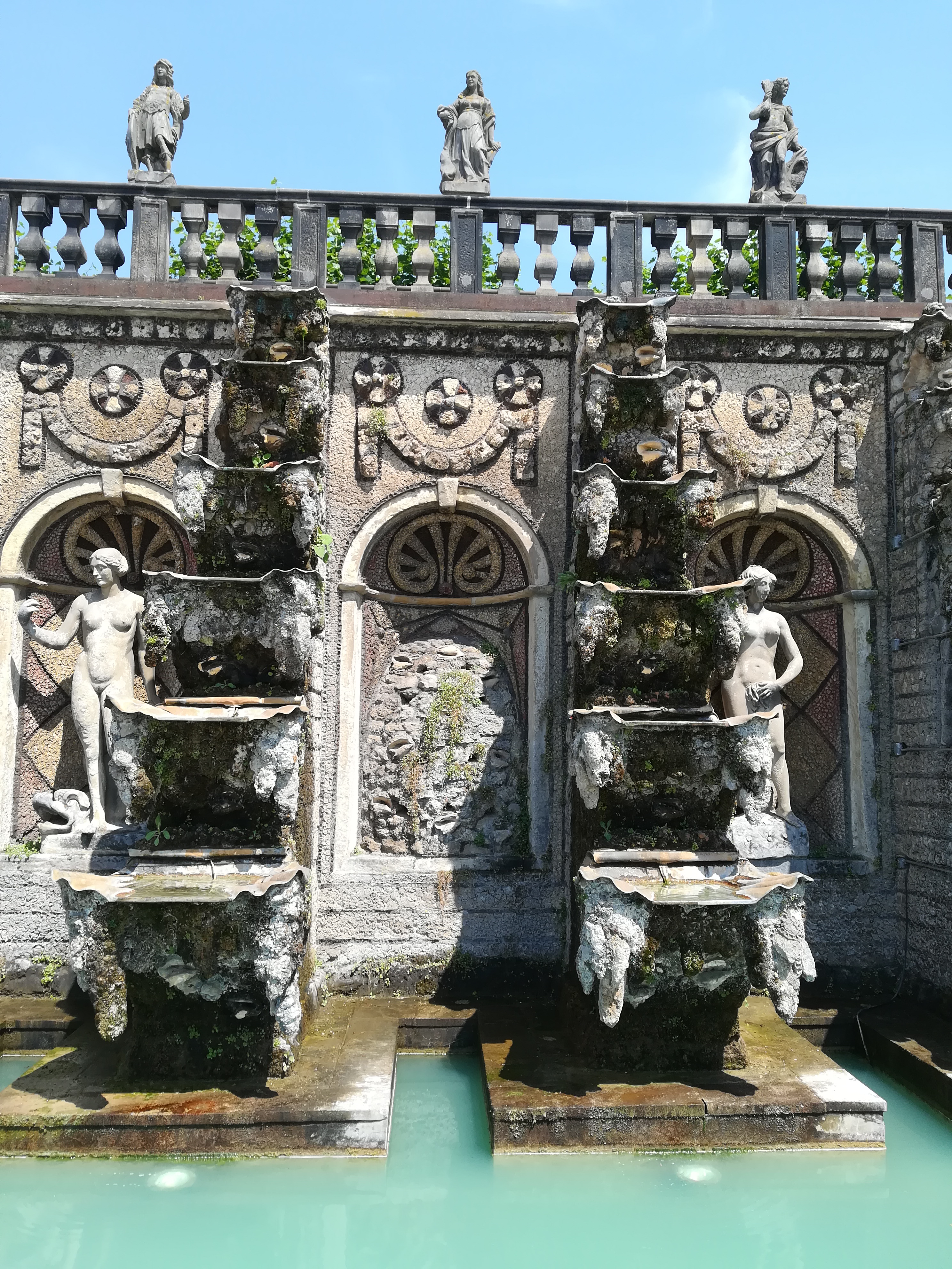 Kaskade im Großen Garten Hannover Herrenhausen